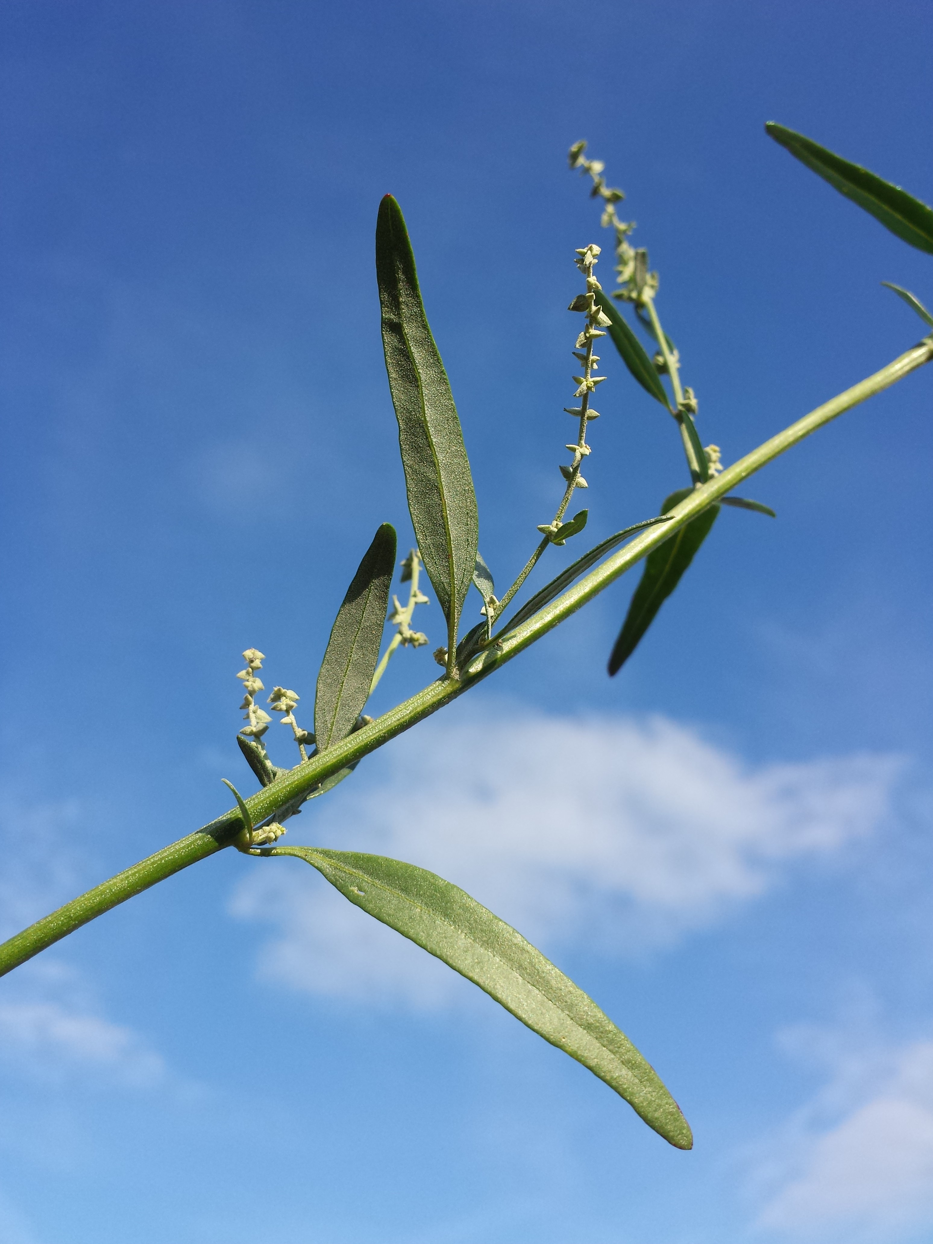 Stem with upper leaves Taxonym: Atriplex oblongifolia ss Fischer et al. EfÖLS 2008 ISBN 978-3-85474-187-9 Location: Schwarzlackenau, Vienna-Floridsdorf - ca. 160 m a.s.l. Habitat: ruderal, dry meadows